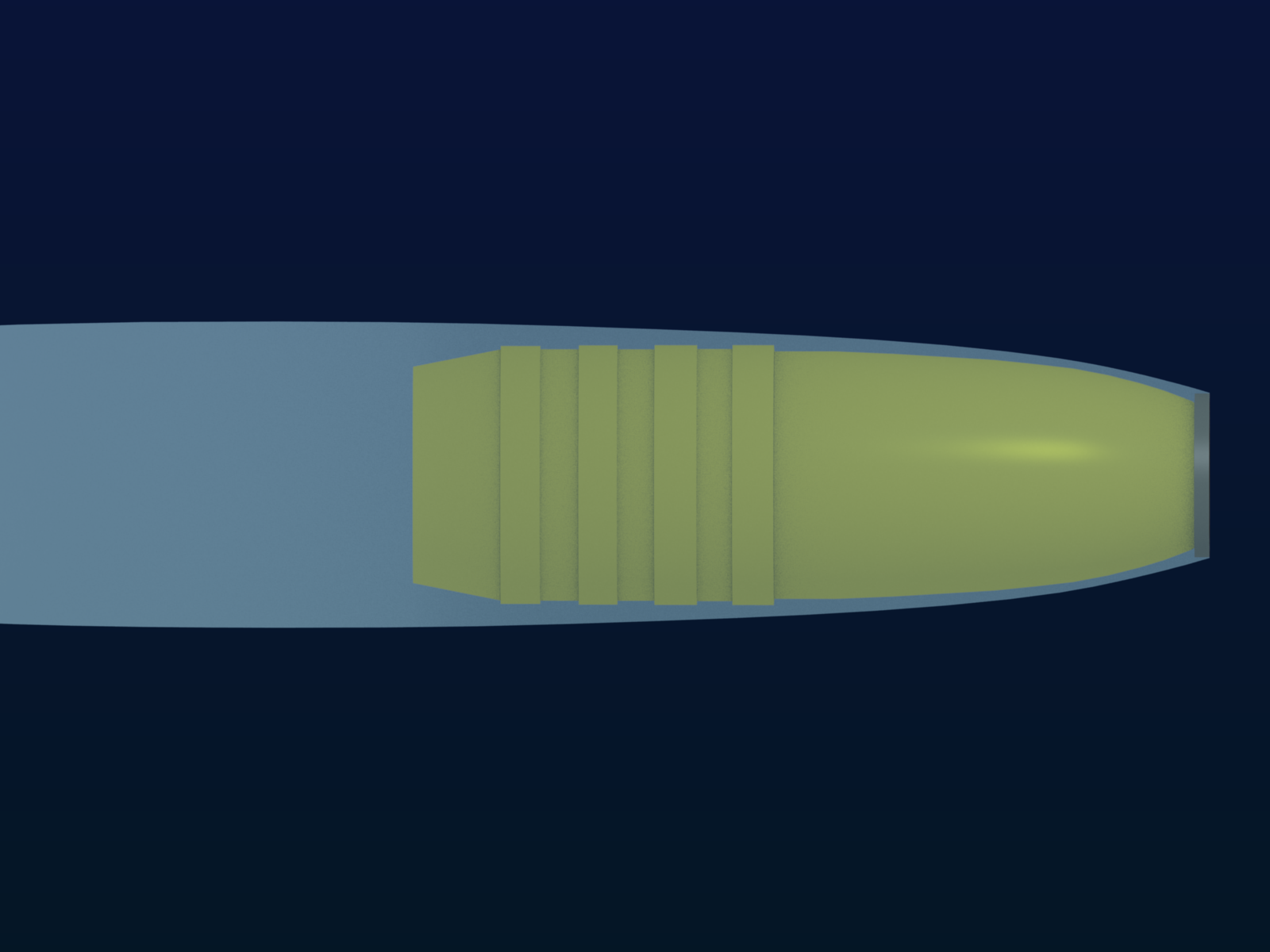 A 3D computer graphic showing the effect of supercavitation by means of a superpenetrator. The superpenetrator (cavitator) and the gas bubble are modeled and rendered with the free 3D modelling software "Blender 3D".